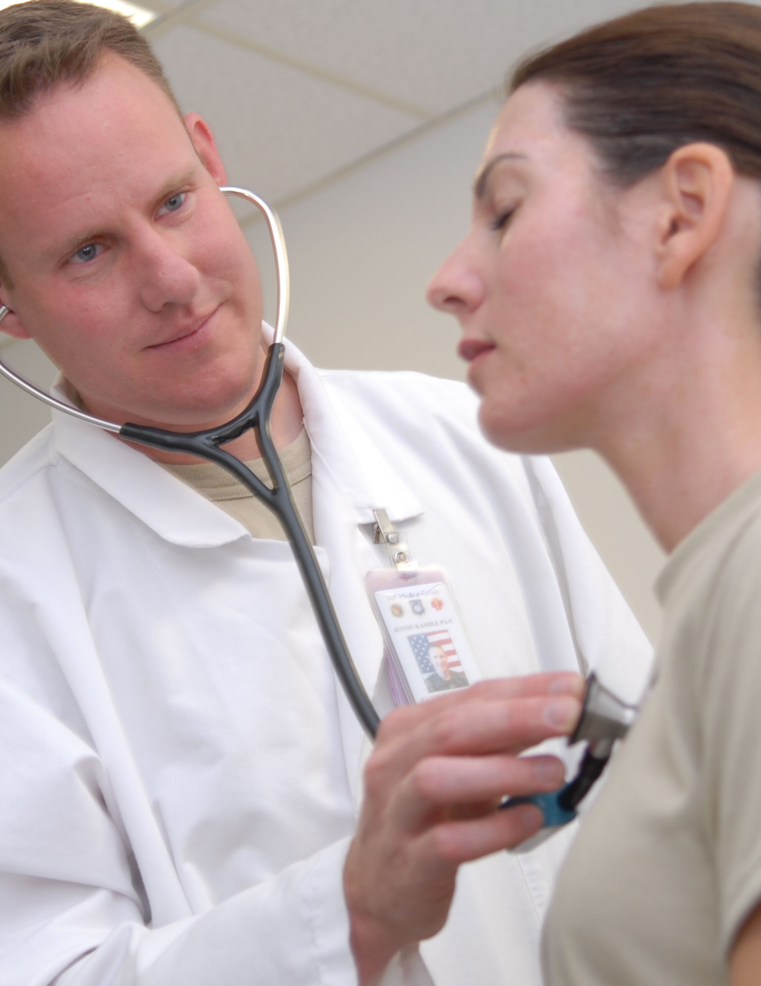 A physician performs a routine checkup on a patient at the medical clinic.